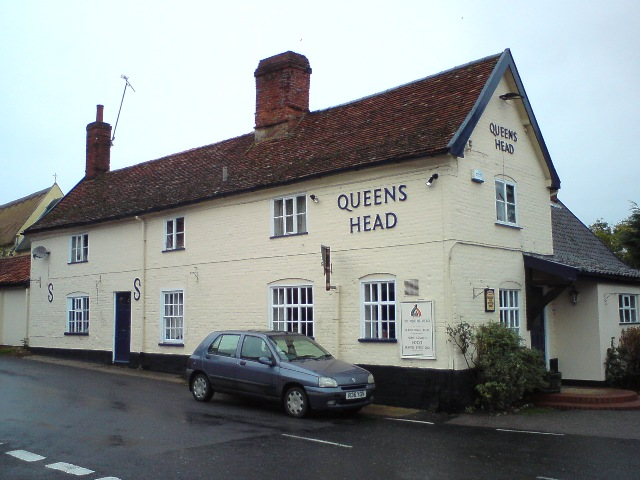 Queens Head, Bramfield Award winning village pub.